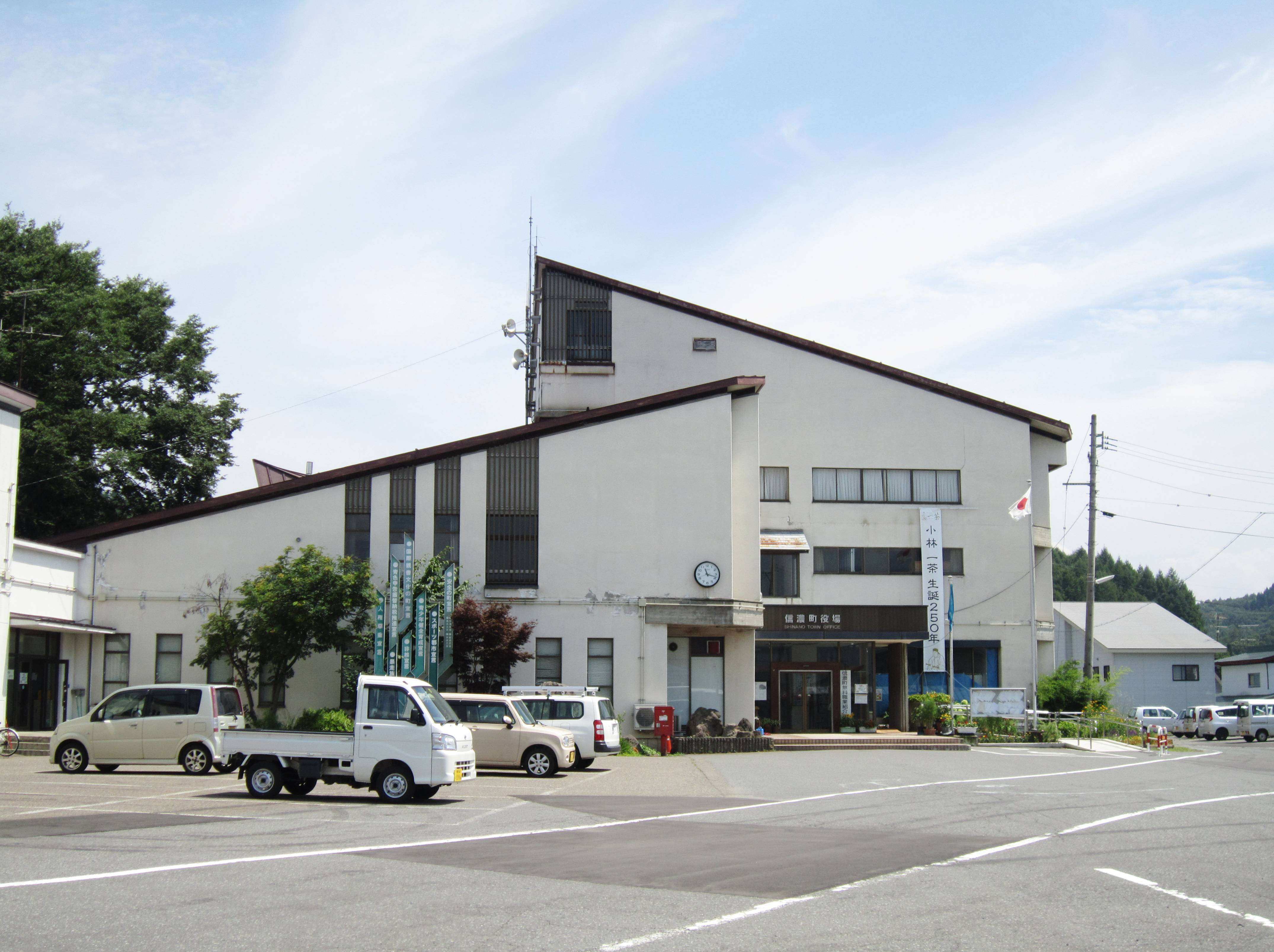 Shinano town office.